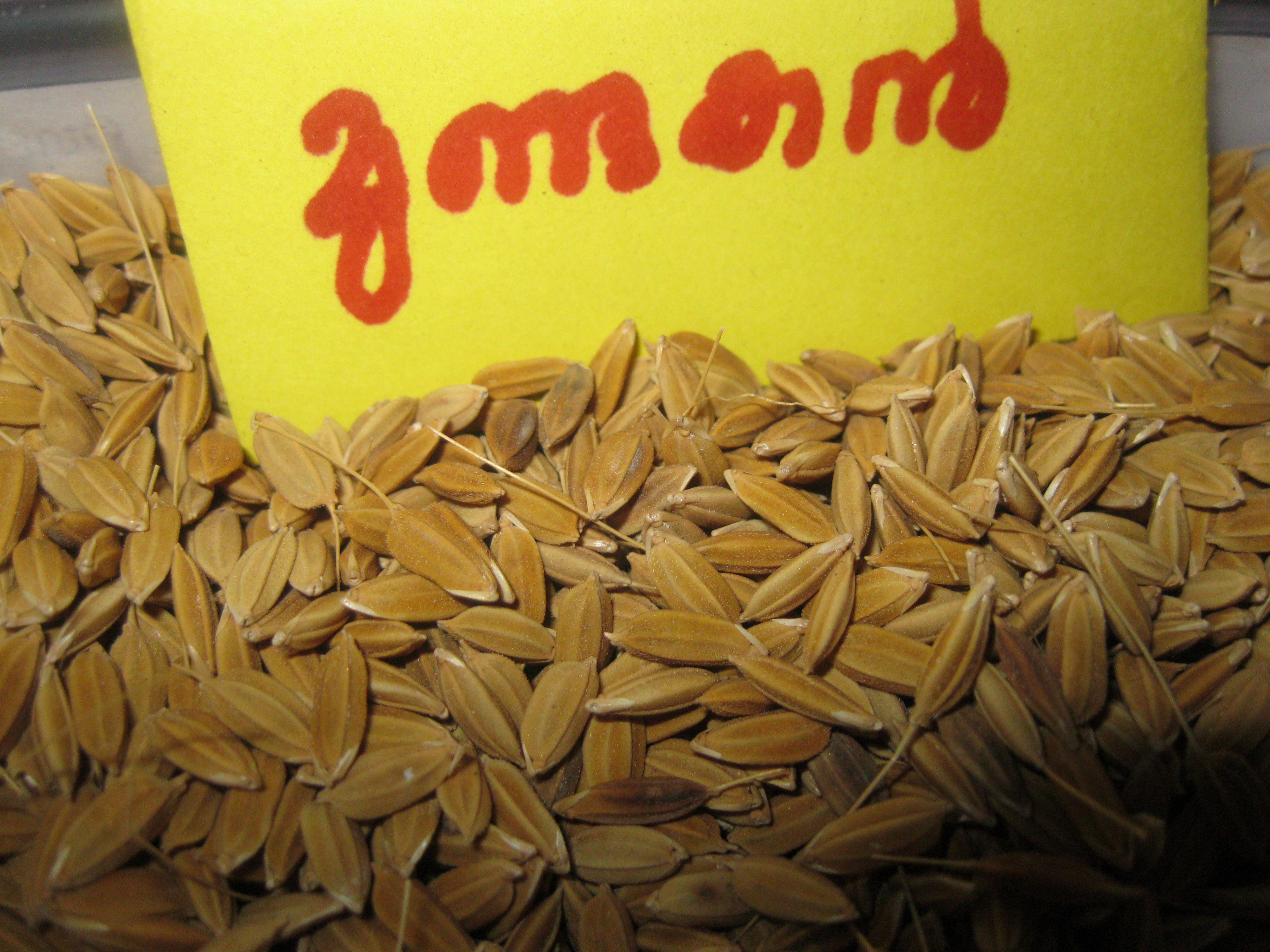 Paddy seed from Kerala